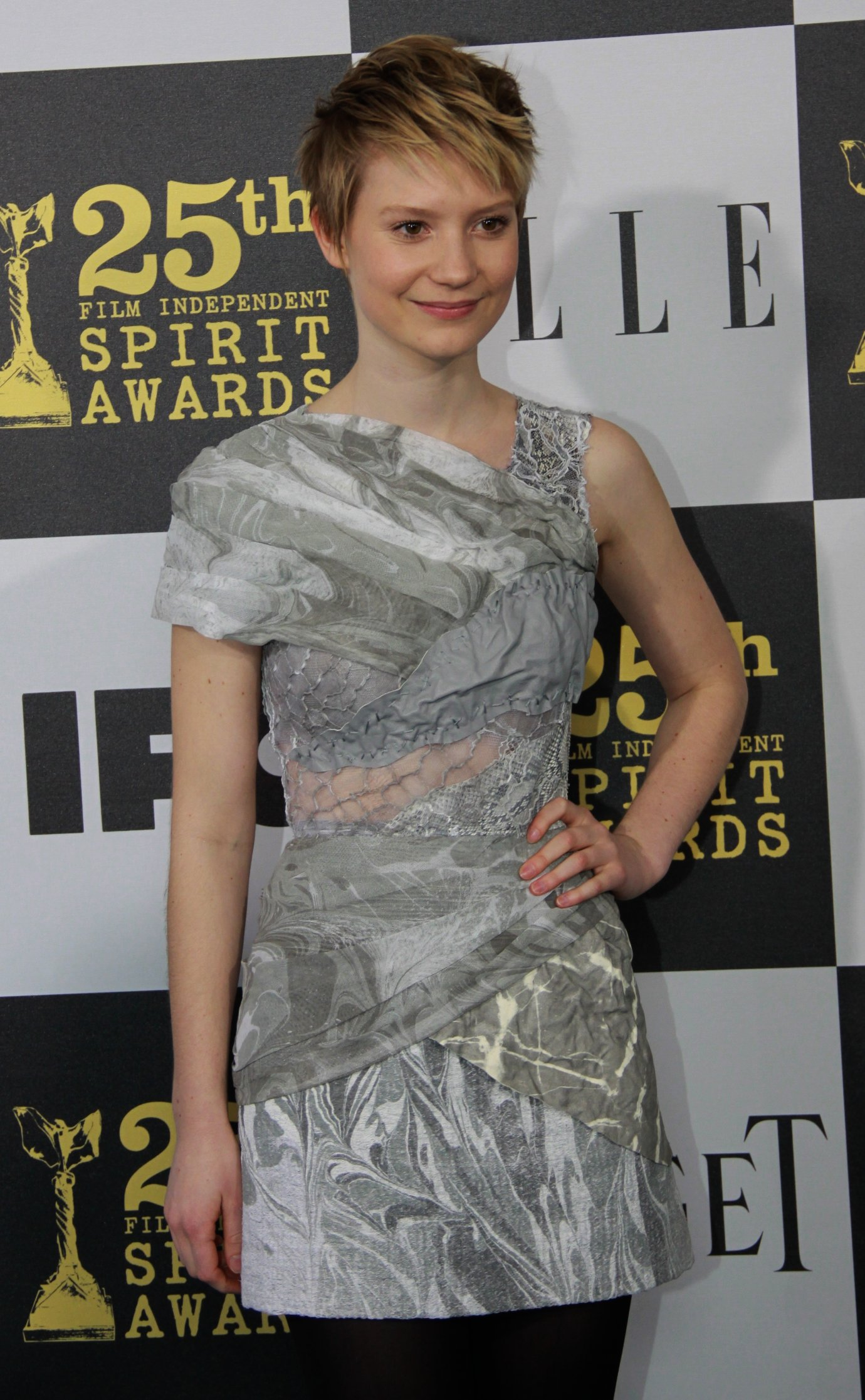 Mia Wasikowska at the Independent Spirit Awards in Los Angeles, March 5th, 2010.